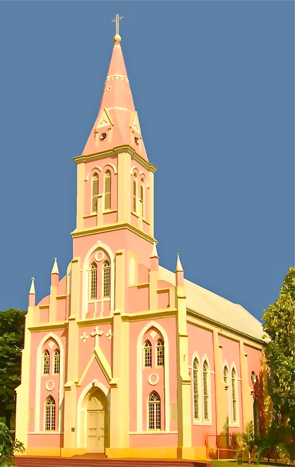 Main Catholic Church, Augusto Pestana (RS), Brazil.